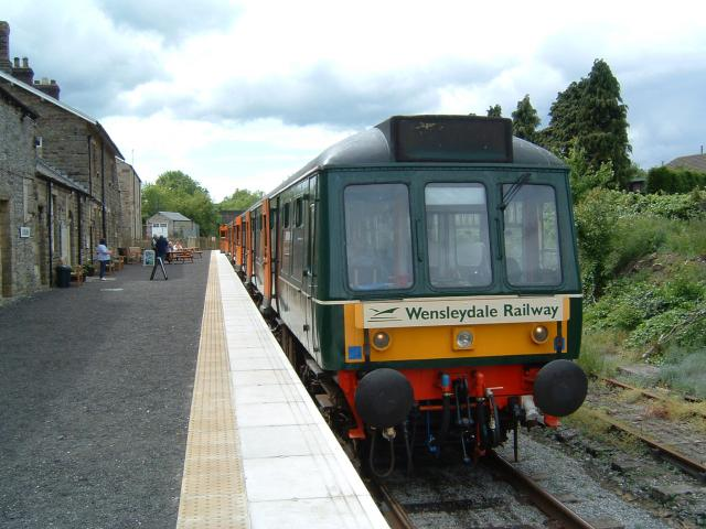 Leyburn railway station looking west , near to Leyburn, North Yorkshire.